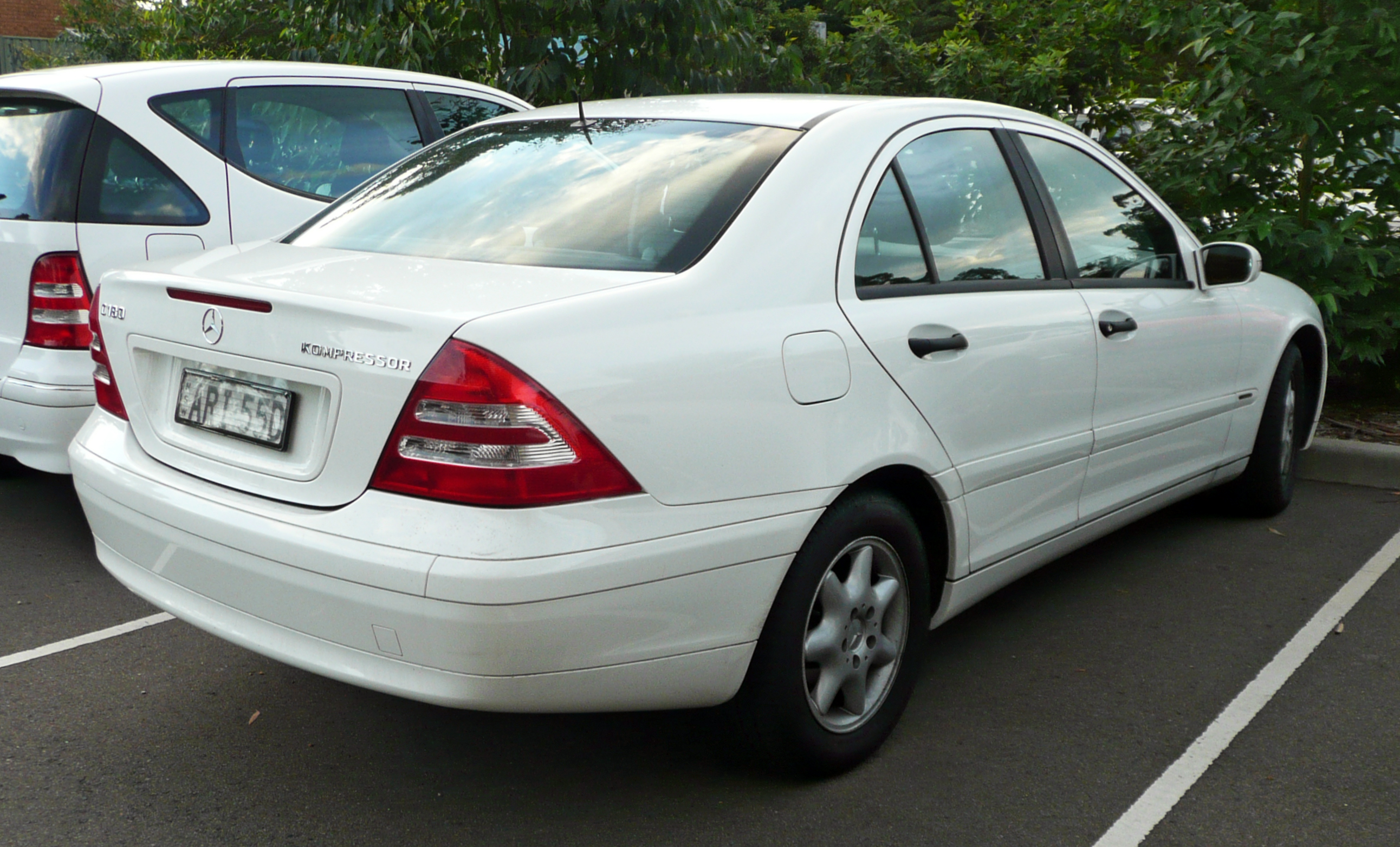 2003 Mercedes-Benz C 180 Kompressor (W 203 MY03) Classic sedan. Photographed in Kirrawee, New South Wales, Australia.